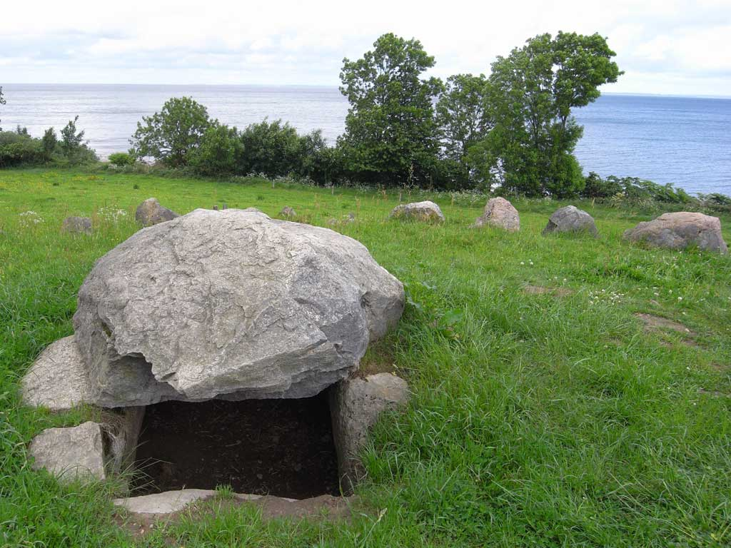 Site Name: Baronens Høj Runddysse Alternative Name: Nørreskov Country: Denmark County: Sønderborg (incl. Als) Type: Burial Chamber (Dolmen) Nearest Town: Sønderborg Nearest Village: Egen Latitude: 55.026048N Longitude: 9.877918E